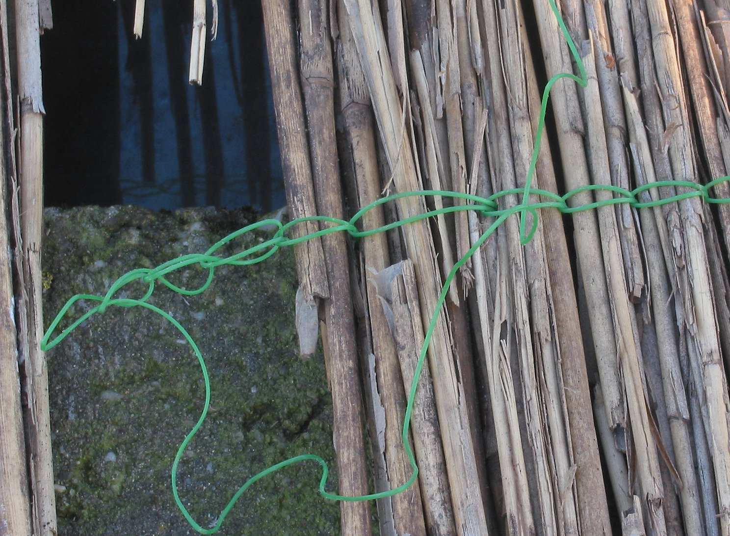 Reed with perlon thread